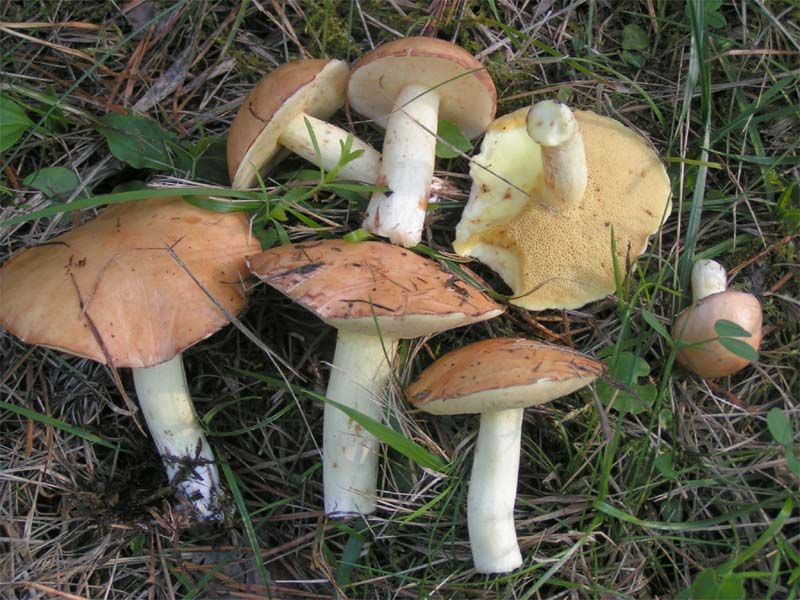 Fruit bodies of the bolete fungus Suillus granulatus